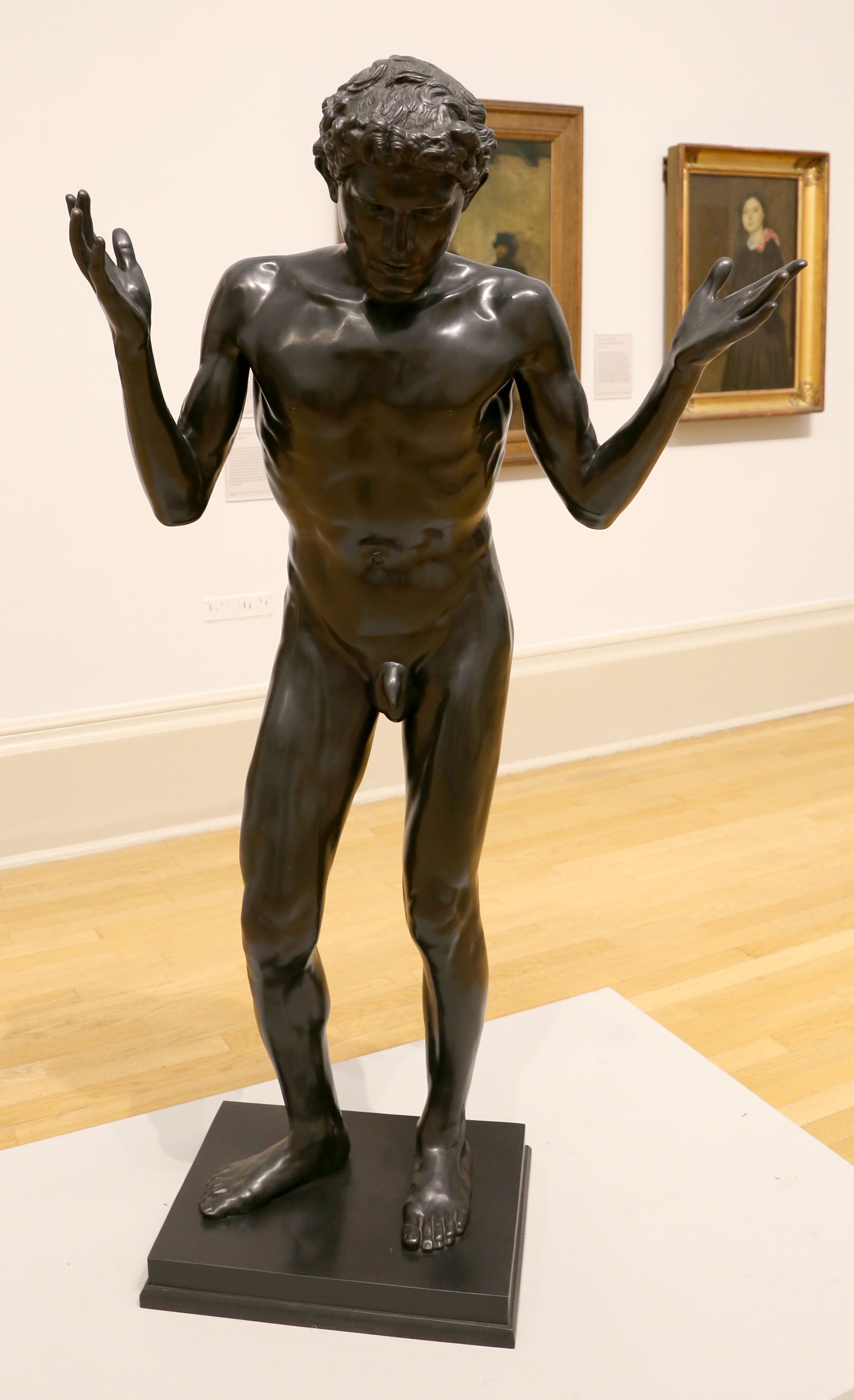 Sculptures in Tate Britain